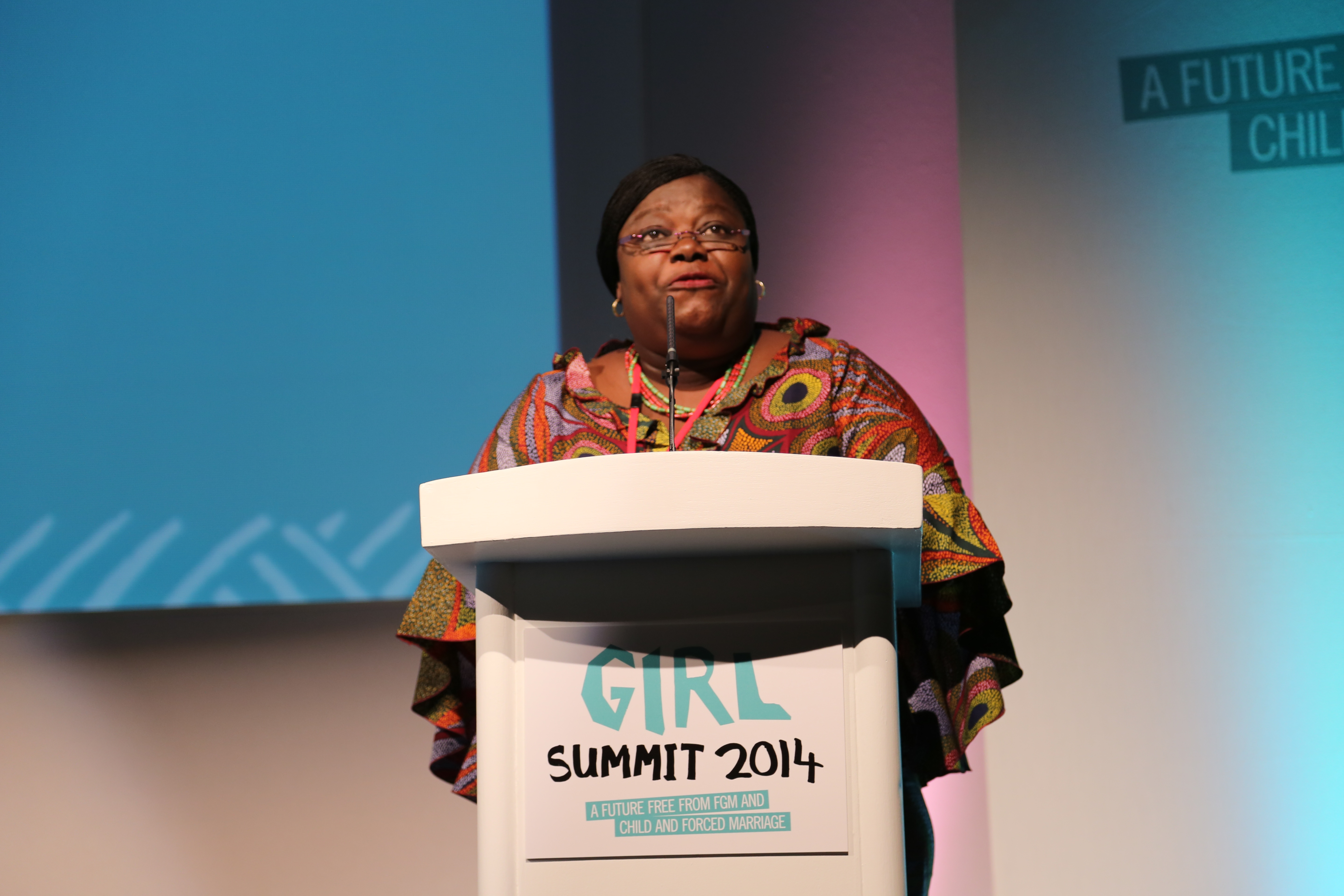 Picture: Marisol Grandon/Department for International Development. Available free under the terms of Crown Copyright/Open Government License/Creative Commons - Attribution